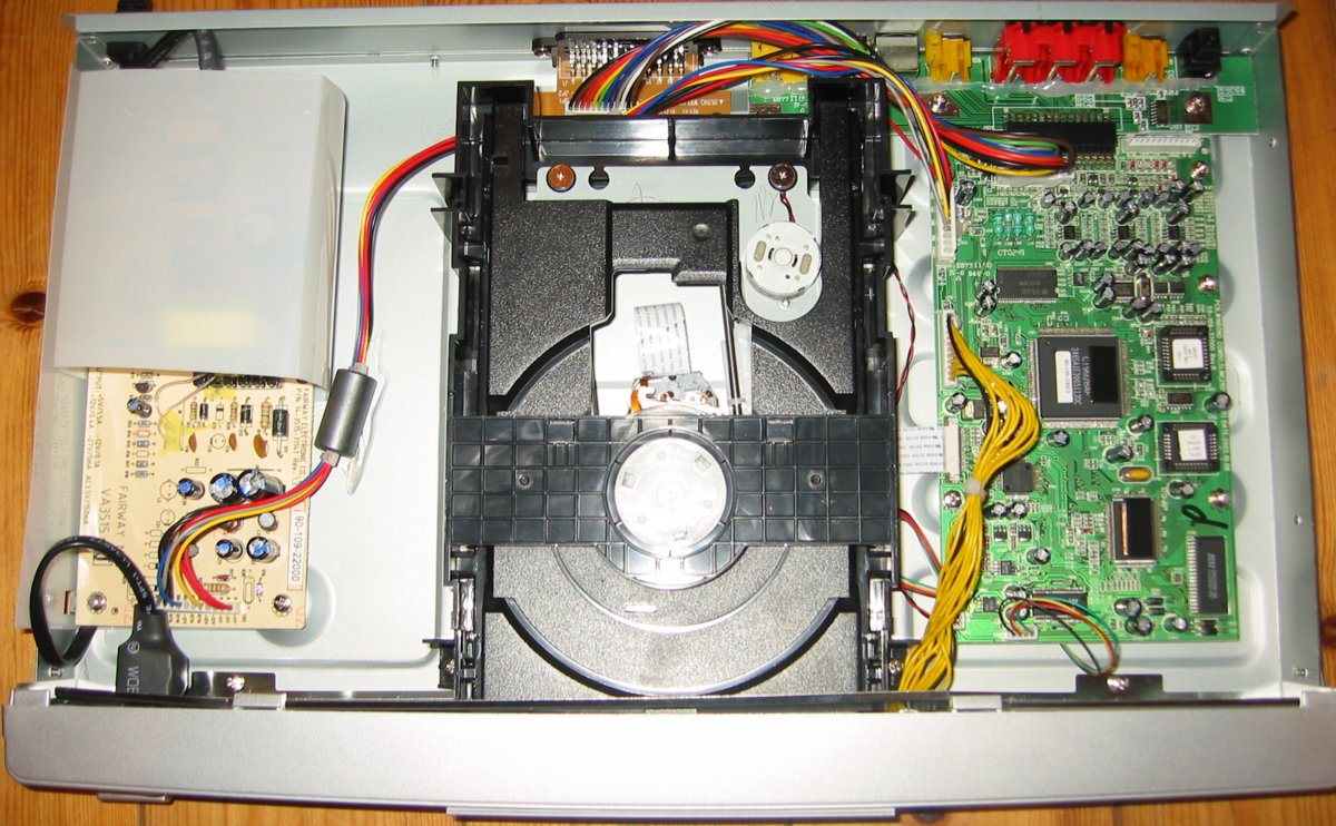 The internals of a Mustek V56L DVD-Video-Player